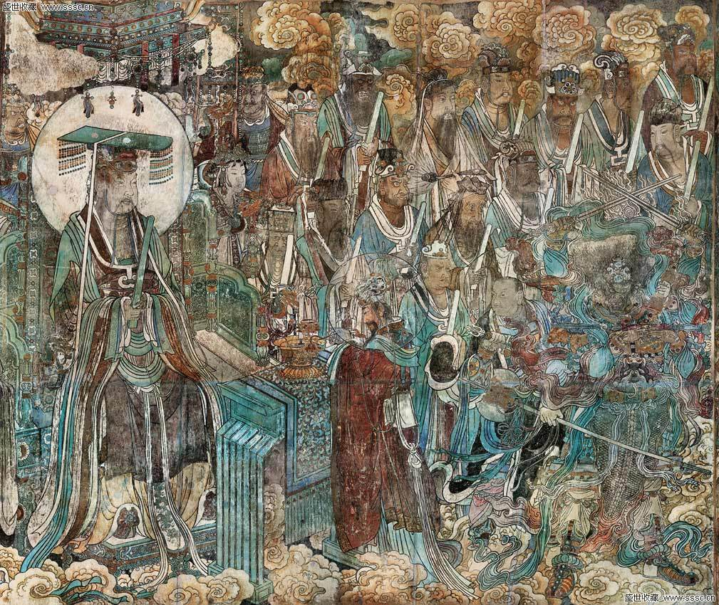 Zhu Haogu's atelier. The Immortal Procession for an Audience with the Three Primodials. ca. 1325, Mural, Sanqingdian, Yonlegong, Shanxi Province.